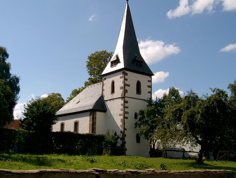 The church in Grebenhain.